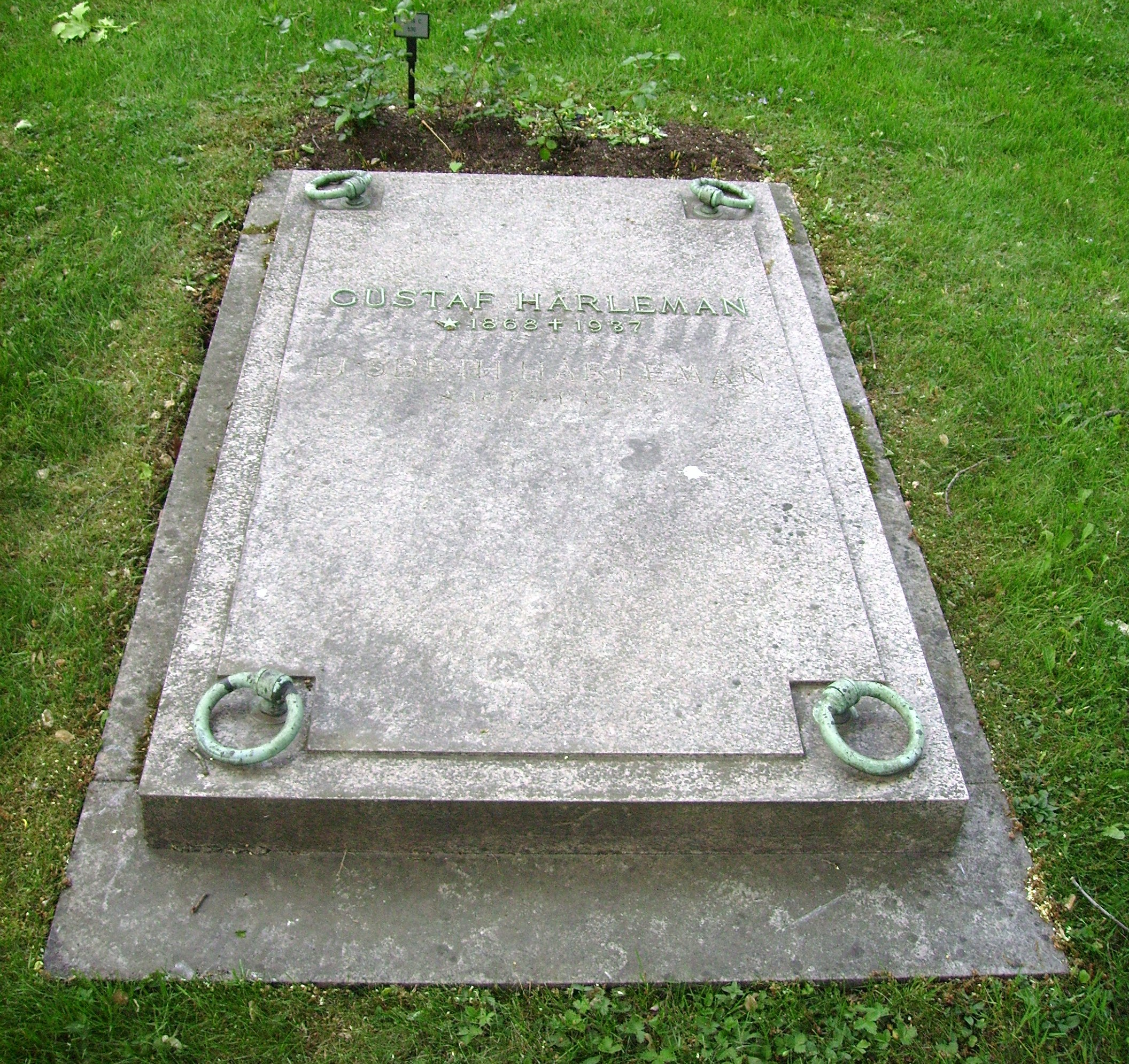 Picture of Gustaf Hårleman's grave at Norra begravningsplatsen in Solna